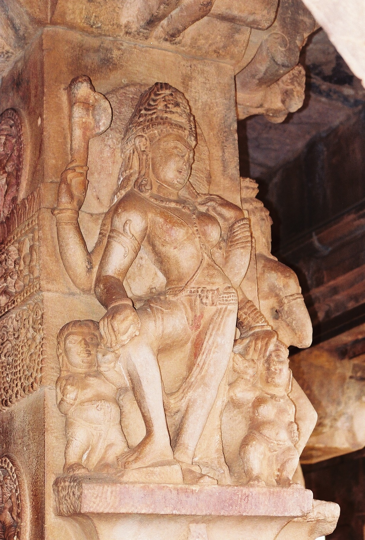 This photograph was taken by me at the Durga temple at Aihole, Karnataka state, India. The temple is usually dated to the 7th-8th century, during the reign of the Badami Chalukya dynasty.